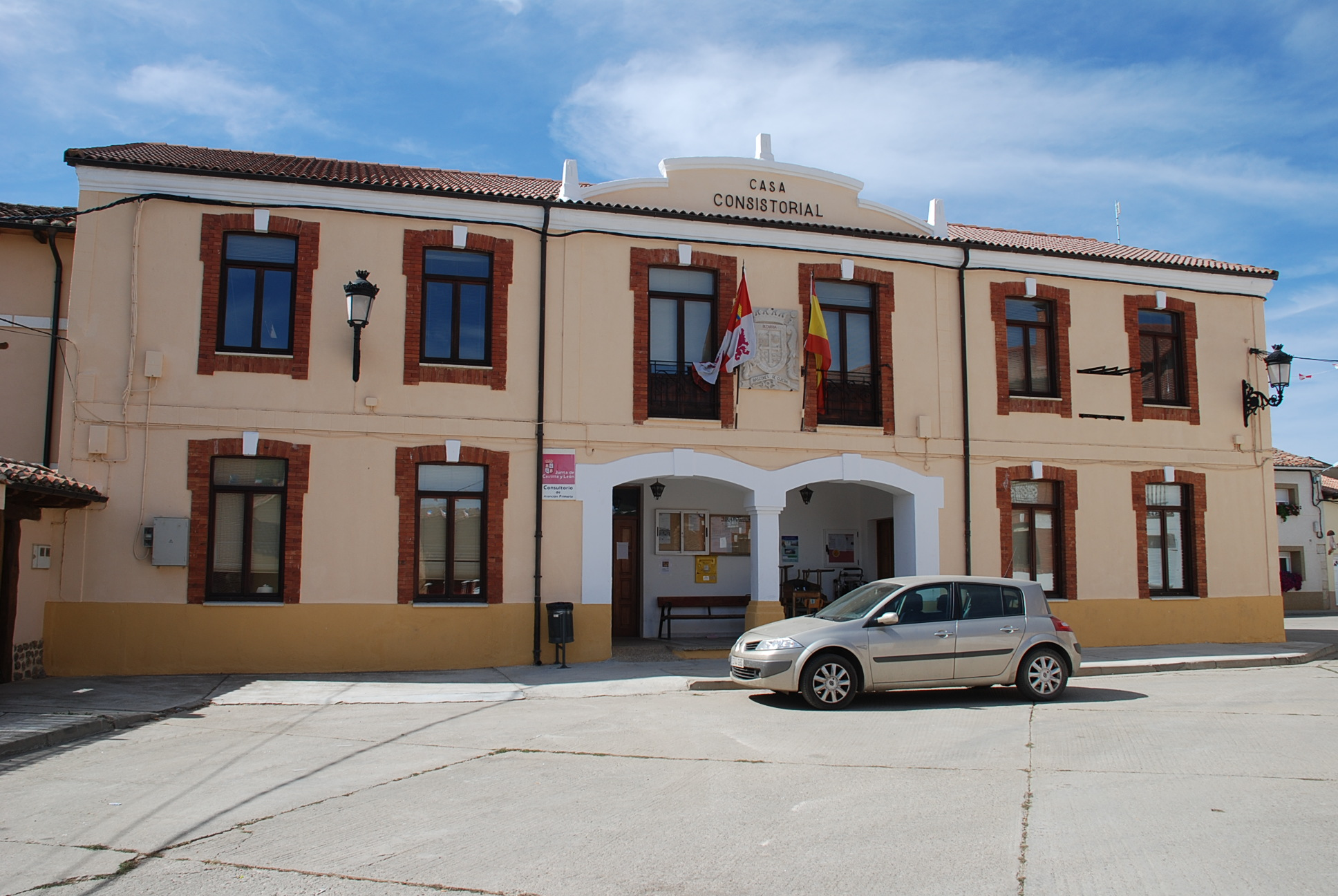 Town hall of Báscones de Ojeda (Palencia, Castile and León).